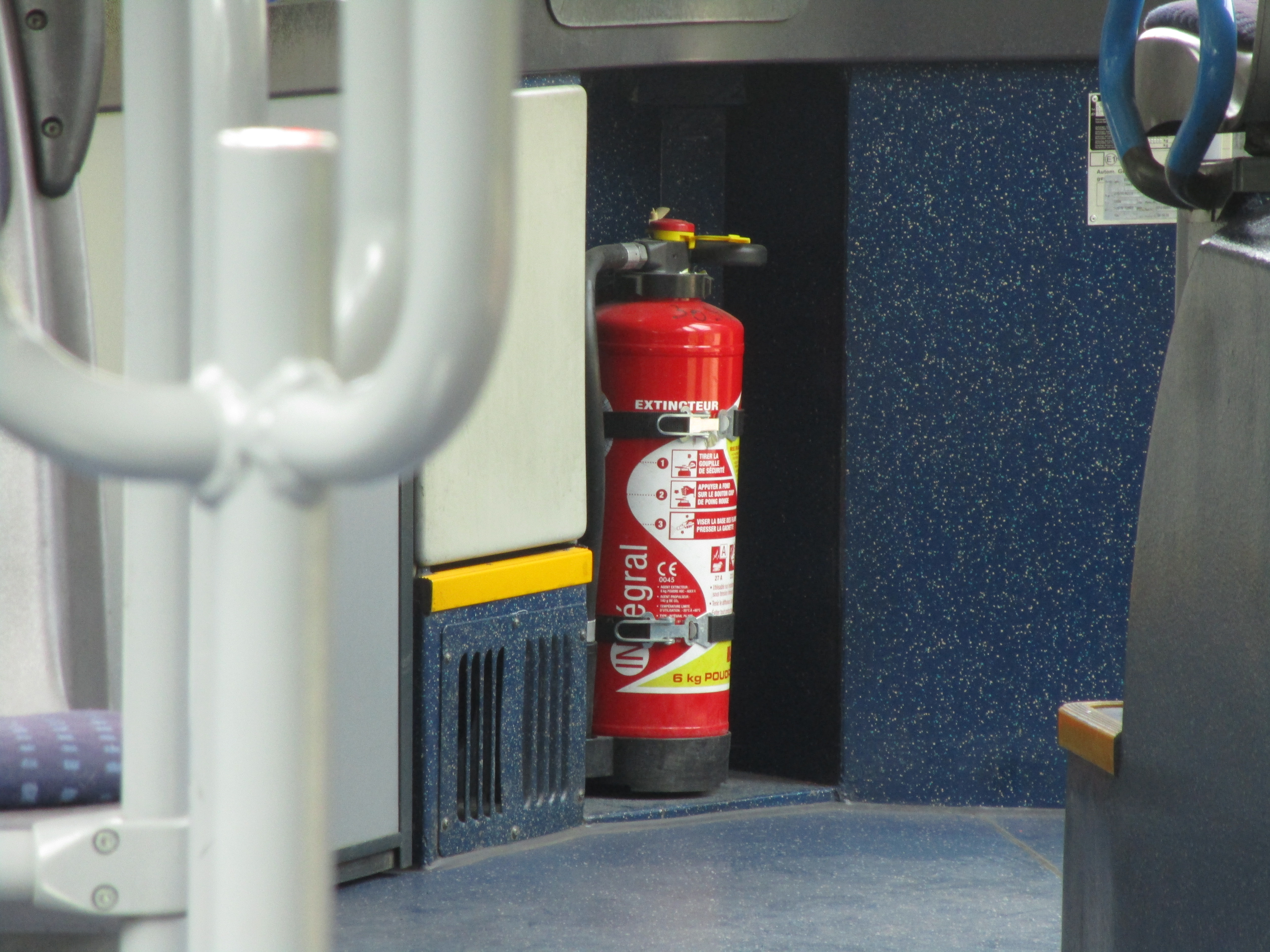 A fire extinguisher in the Mercedes-Benz Citaro C1 GNV n°3051 of the Stac.